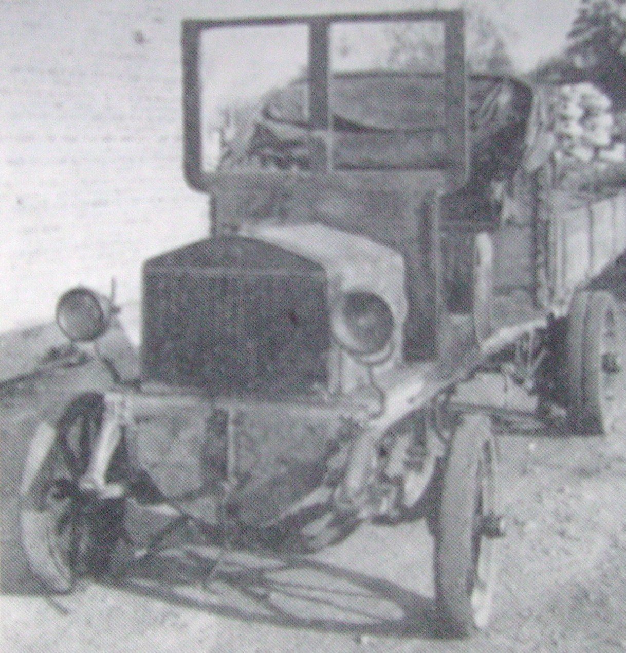 Picture of Scania (car)